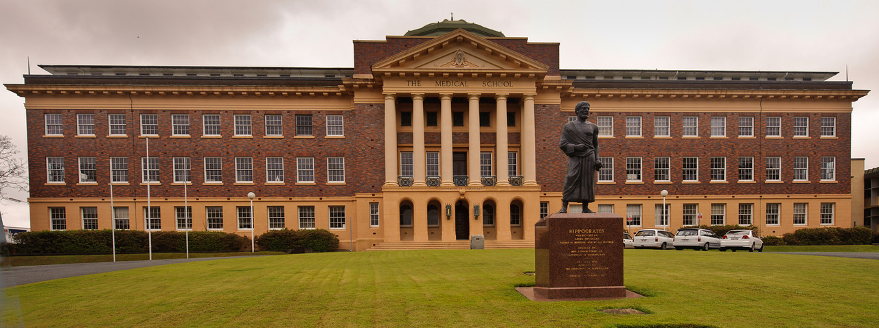 Hippocrates statue in Brisbane.